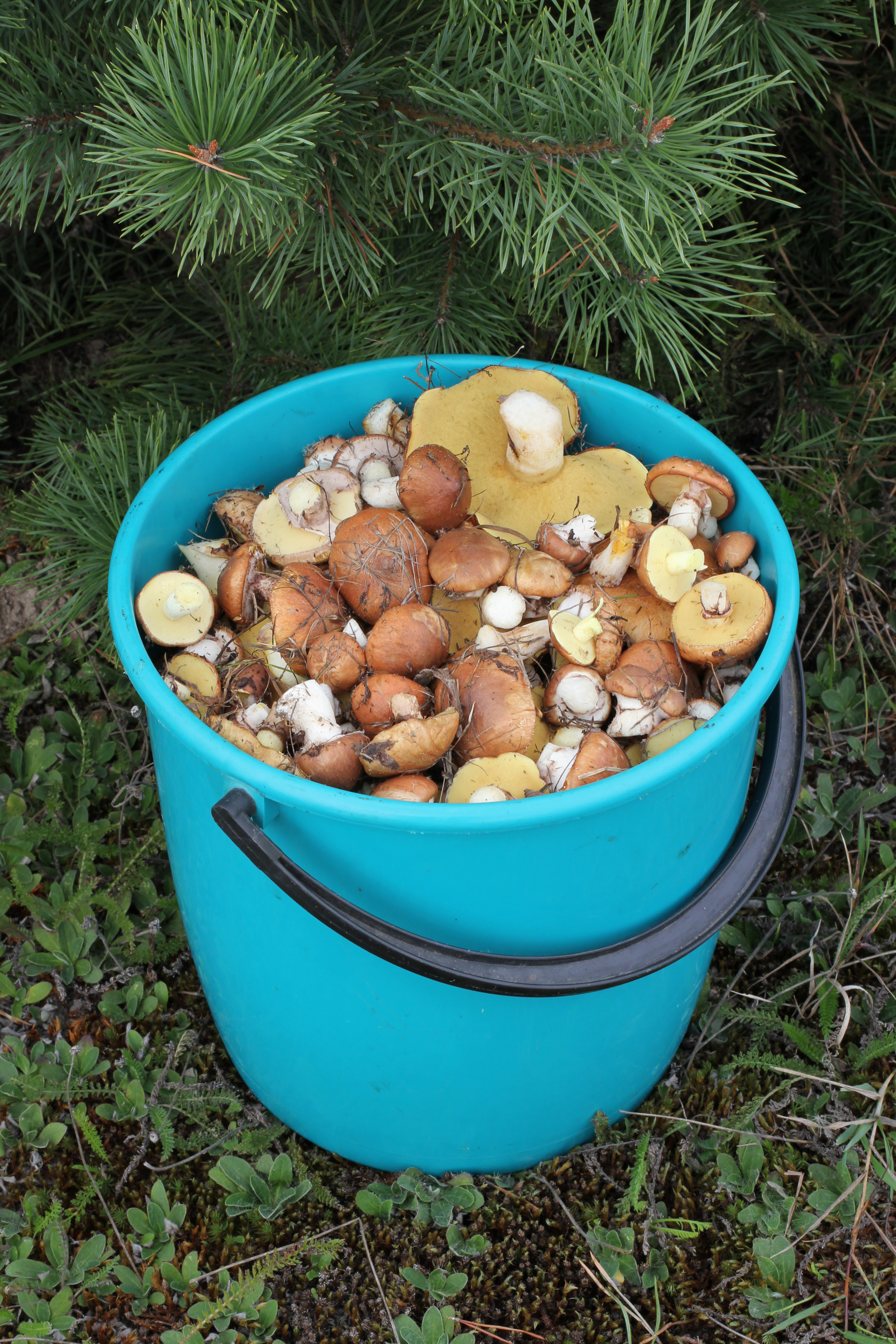 Slippery Jack mushrooms (Suillus luteus). Picked edible fungi in bucket. Trophies of a mushroom hunt. Ukraine.